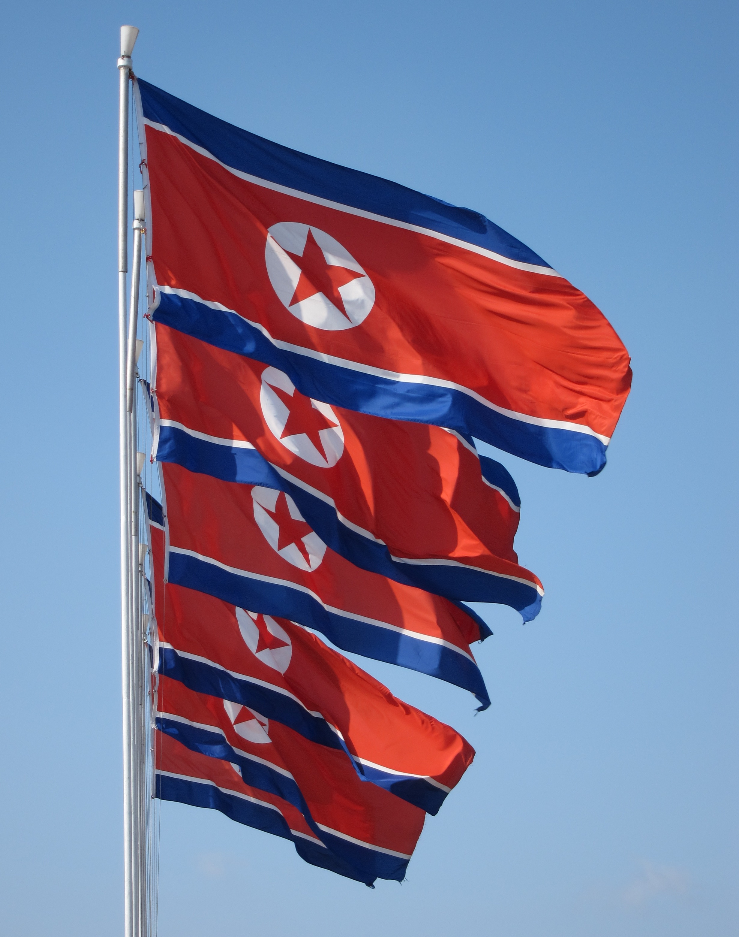 Photograph of flags of North Korea in North Korea.